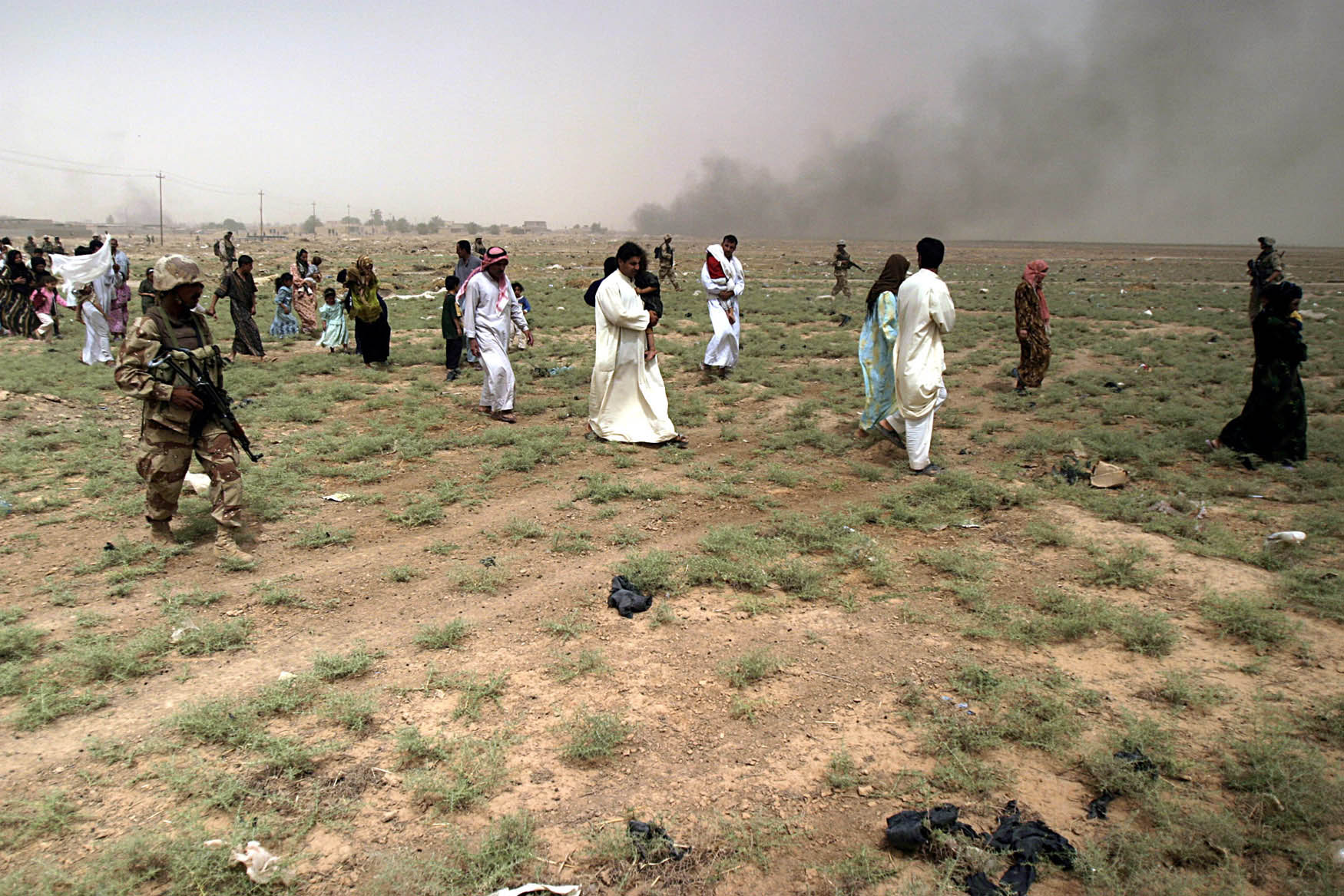 Karabilah, Al Anbar, Iraq (June 20, 2005)-- Marines with 2nd platoon, Company "L", 3rd Battalion, 25th Marine Regiment and members of the 7th Iraqi Security Force escort families out of immediate danger areas in Karabilah during Operation Spear. (Official USMC Photo by Corporal Ken Melton)